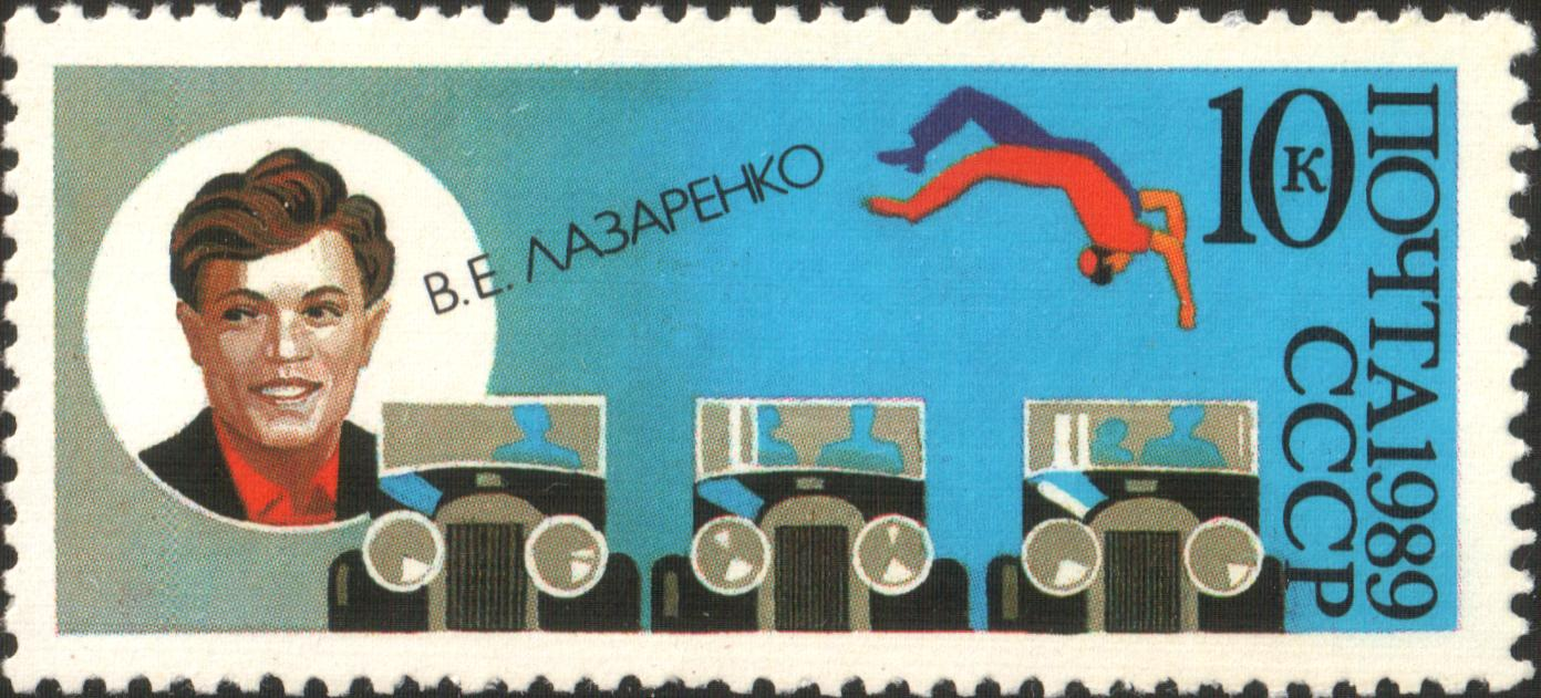 A USSR stamp